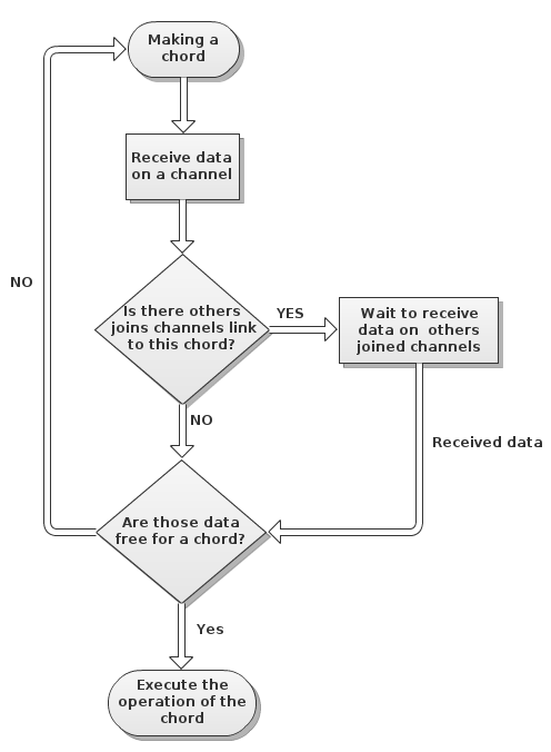 Making a chord with the join pattern explained by a flow diagram